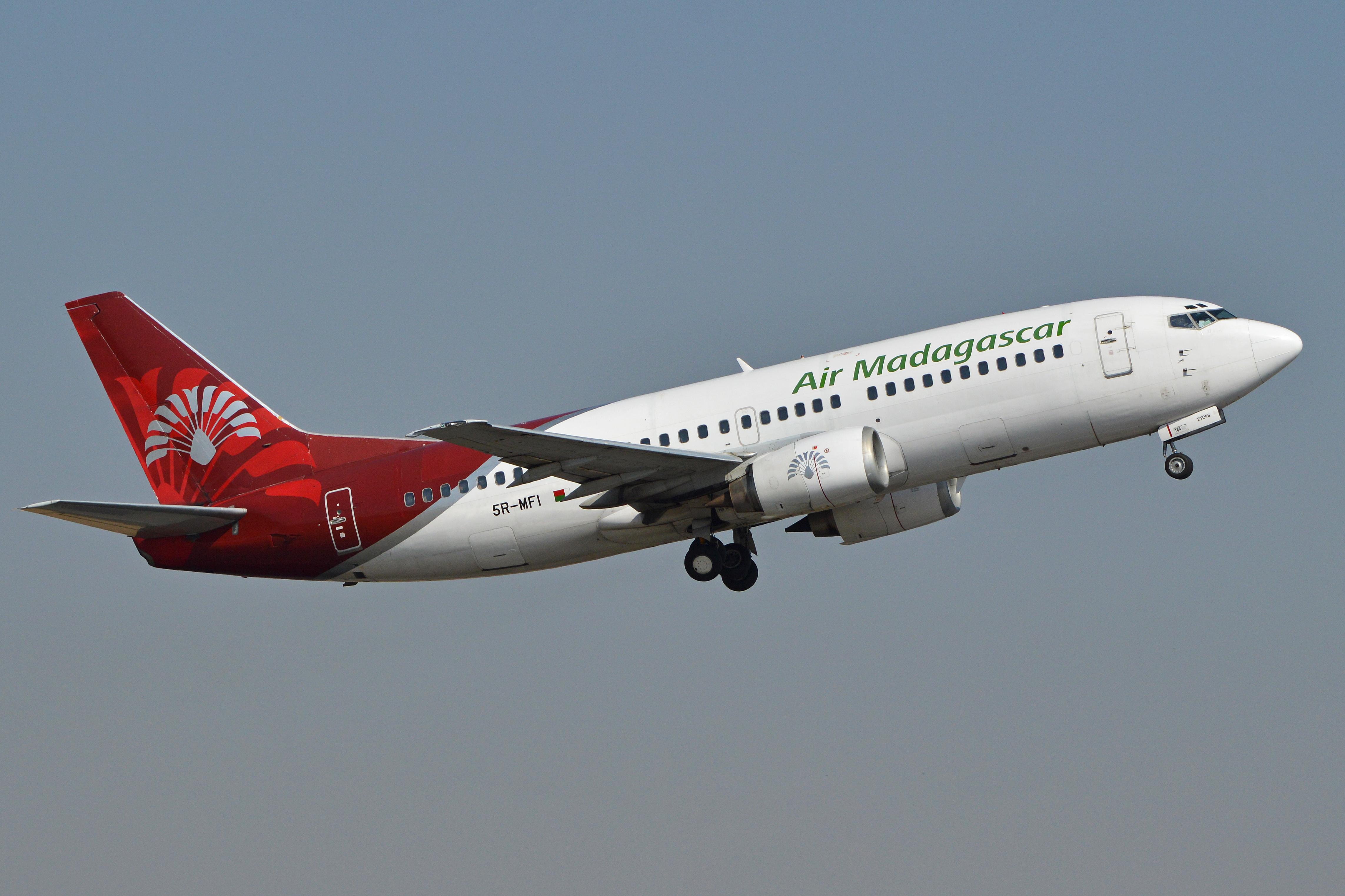 c/n 26301, l/n 2623. Built 1994 for Air Europa as EC-FYF. Later flew for Pro Air as N362PR and then for Frontier Airlines as N319FL. Finally joined Air Madagscar in 2003. Seen departing O.R. Tambo International Airport, Johannesburg, South Africa. 16-9-2014